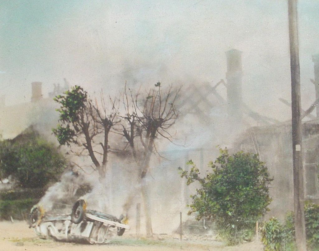 The fatal accident Swedish GP 1933